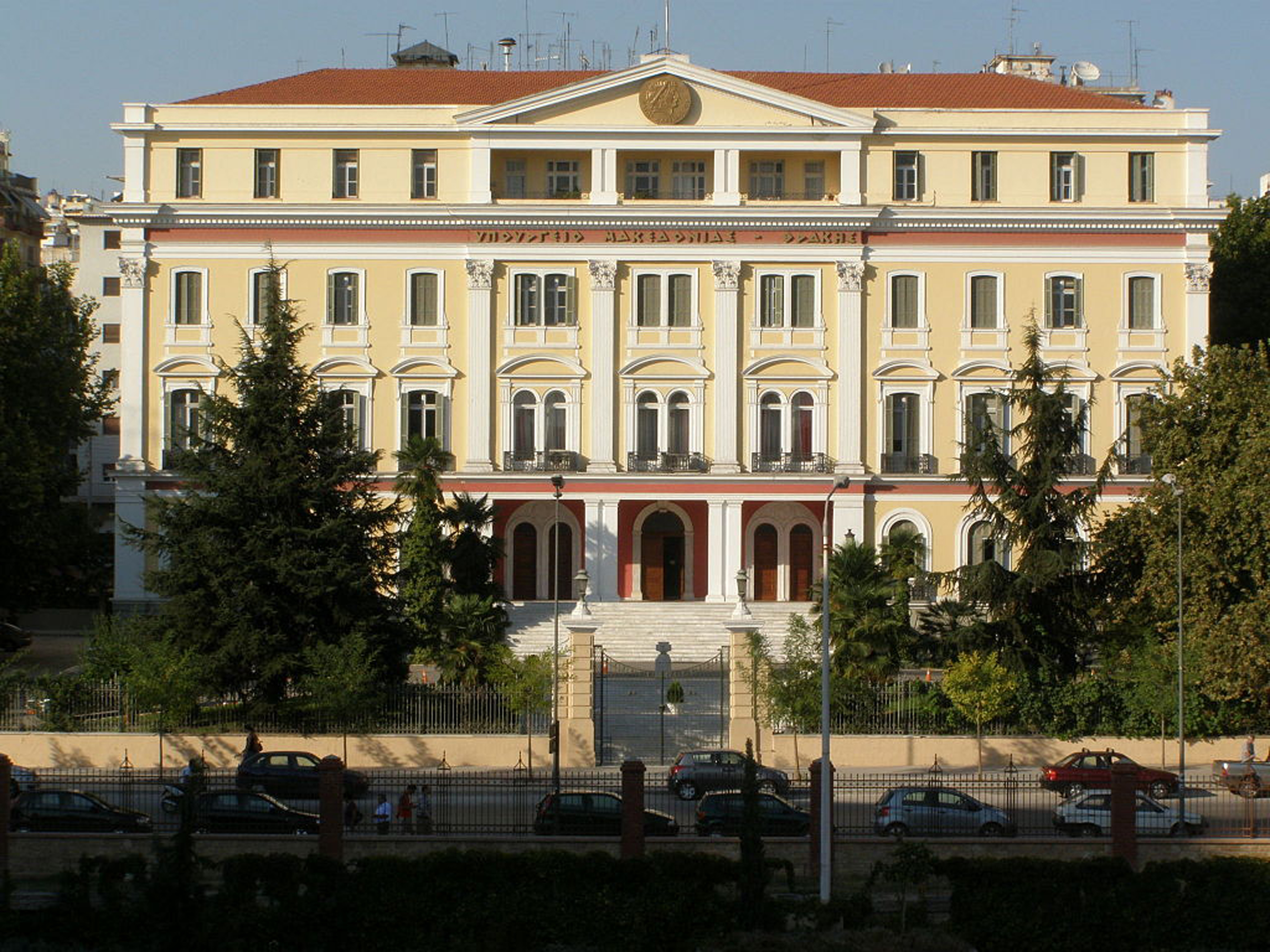 Thessaloniki Ministry of Greek Macedonia and Thrace